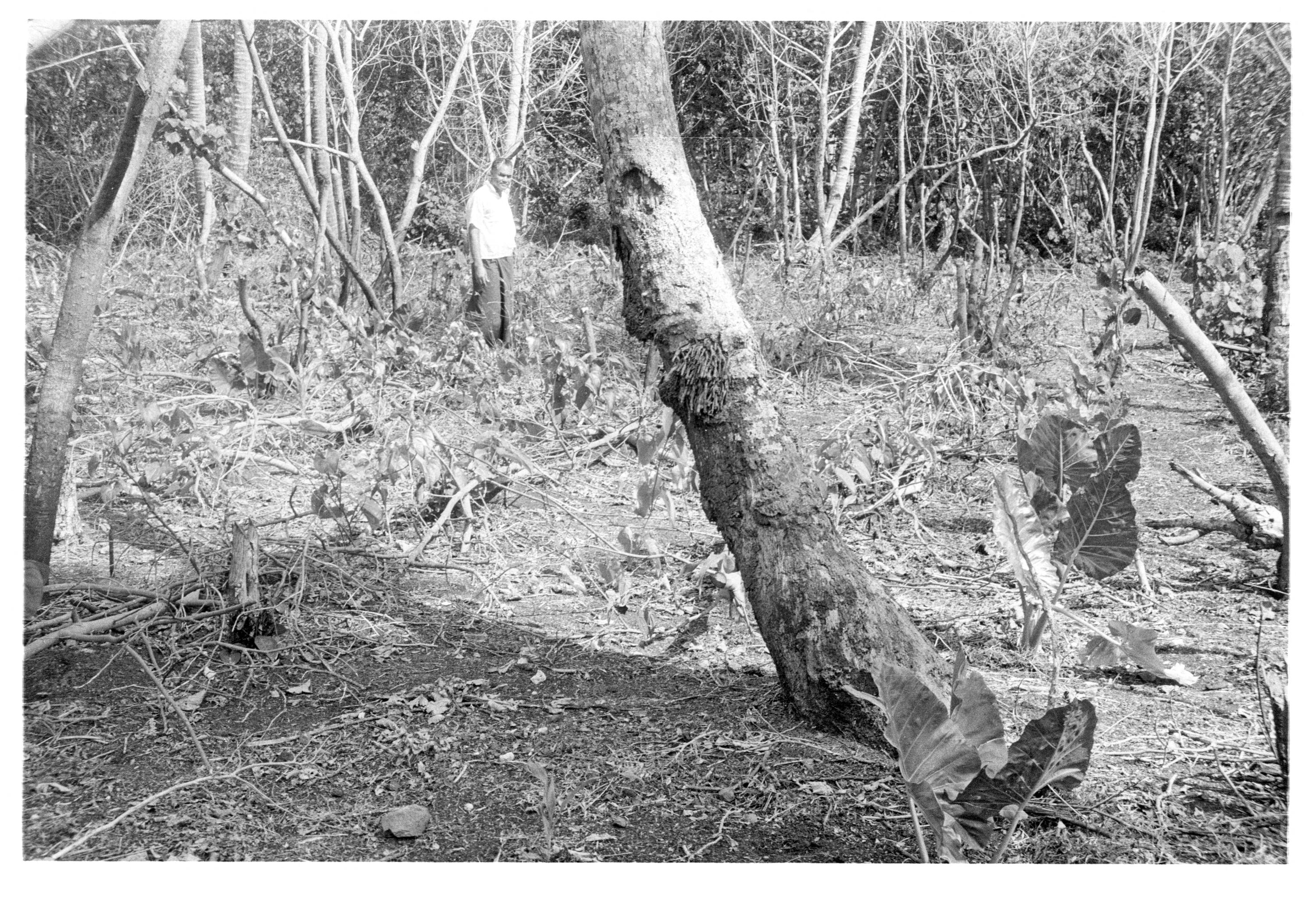 First Niuatoputapu Agricultural Farm at 'Ahofakataha - experimental yam garden (Niuatoputapu island, Tonga)